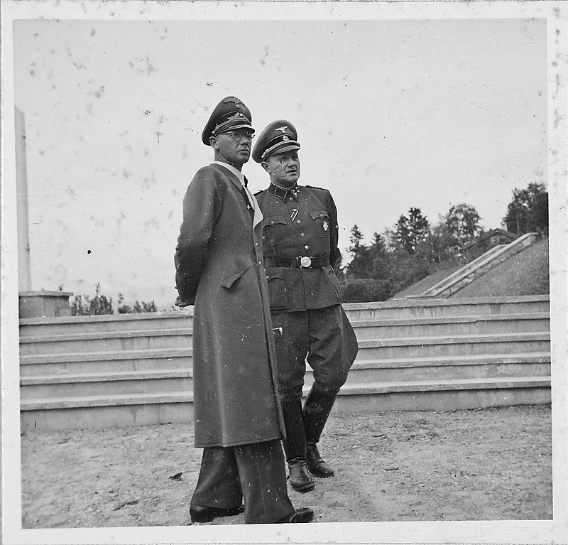 Image from "Photo Album from Terboven's journey to Nothern Norway and Finland 10–27 July 1942" (Mit dem Reichskommissar nach Nordnorwegen und Finnland 10. bis 27. Juli 1942), 375 images uploaded to www. by Riksarkivet (National Archives of Norway) 2012. See scanned album here